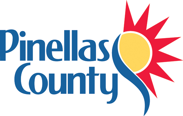 Seal of the county